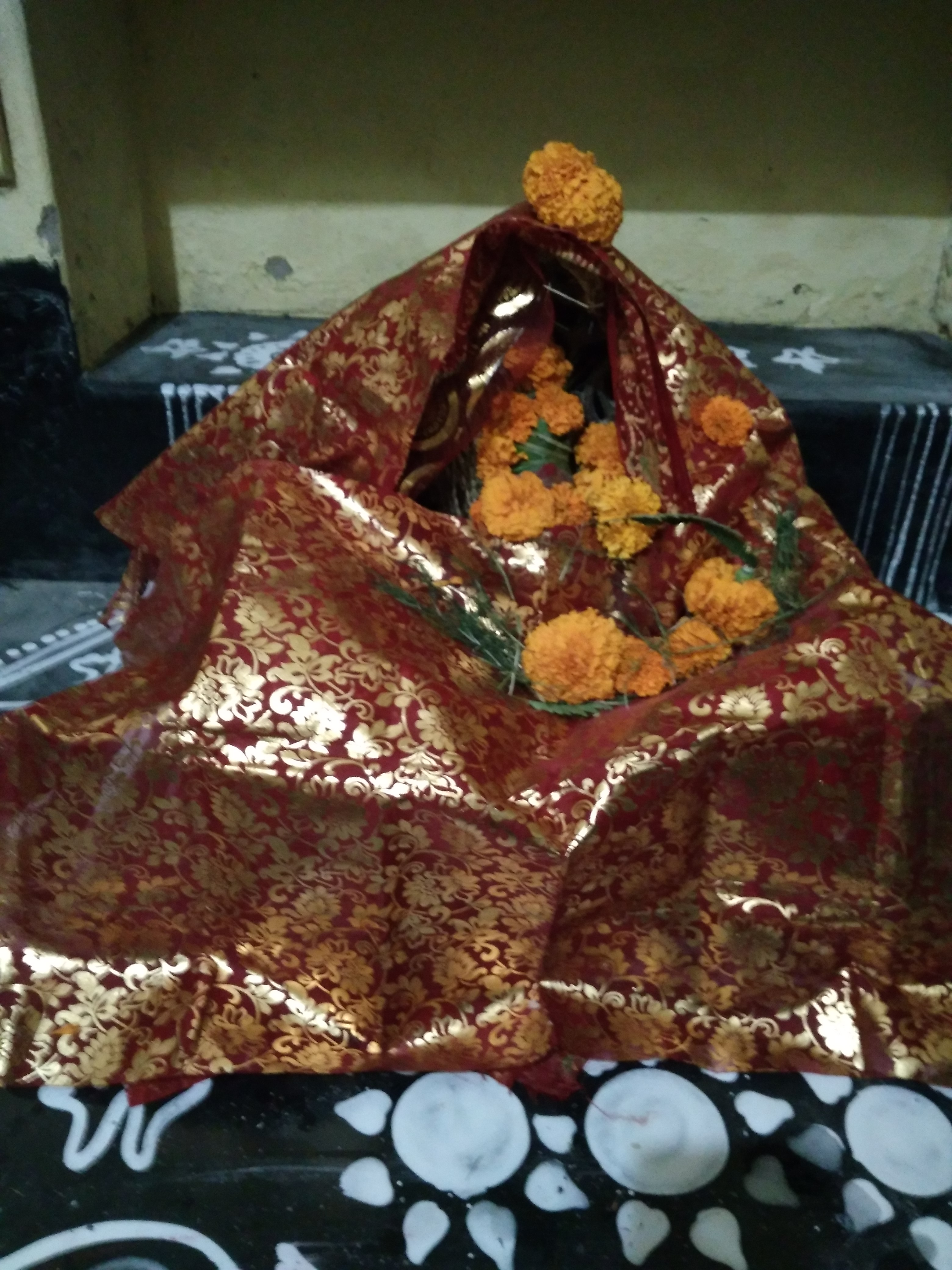 Laxmi puja